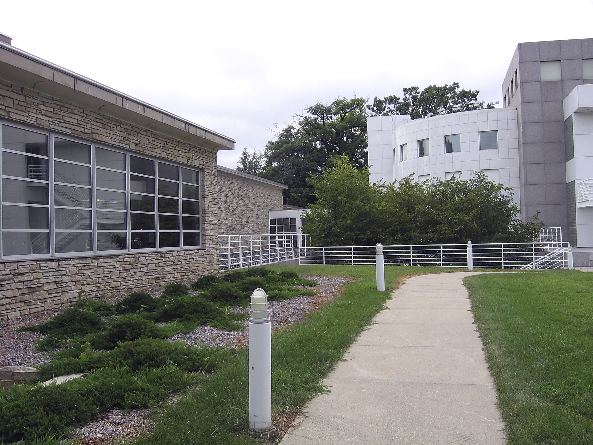 Saarinen and Meier Sections of the Des Moines Art Center on the northwest side of the building.